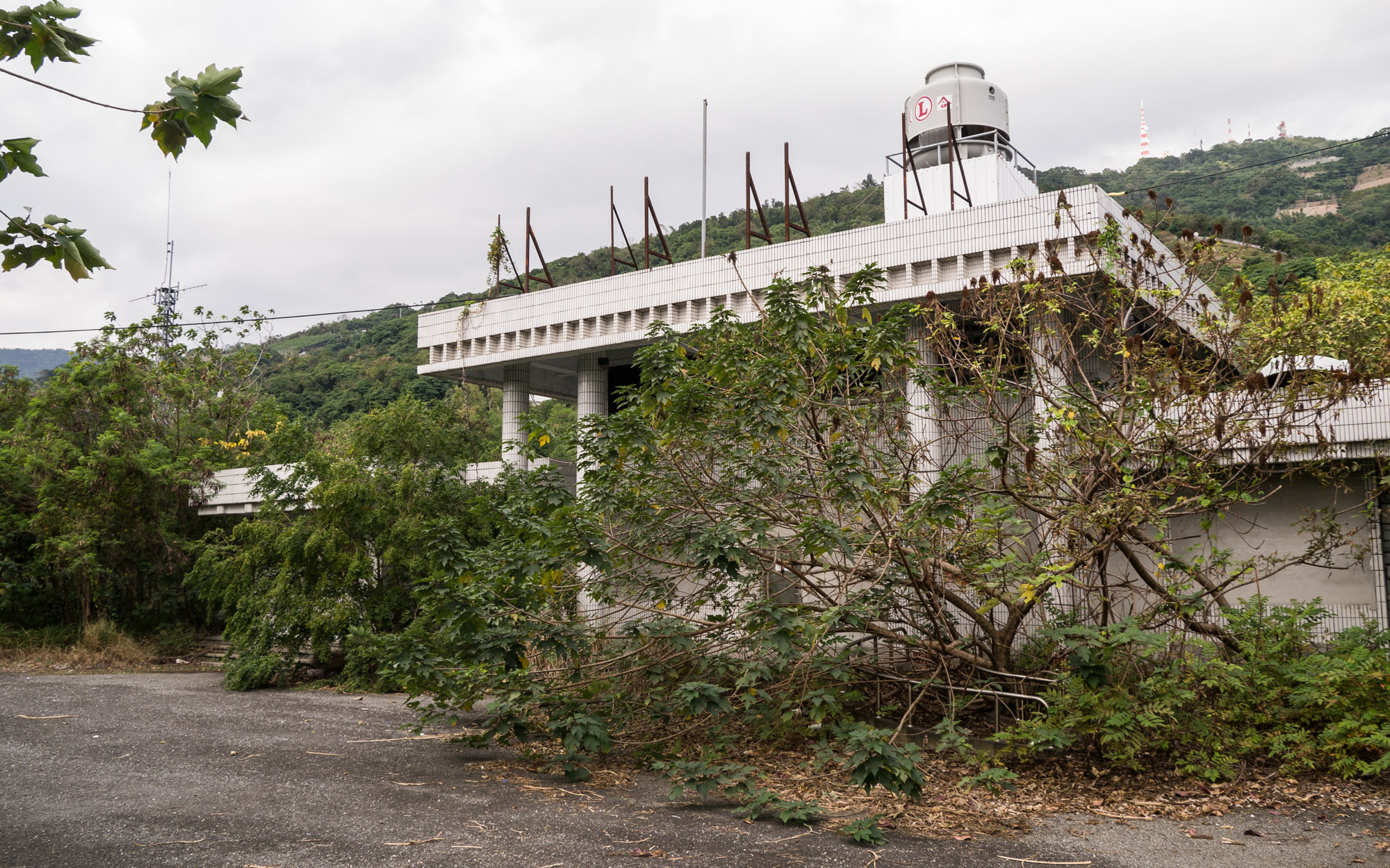 三和車站 TRA Sanhe Station